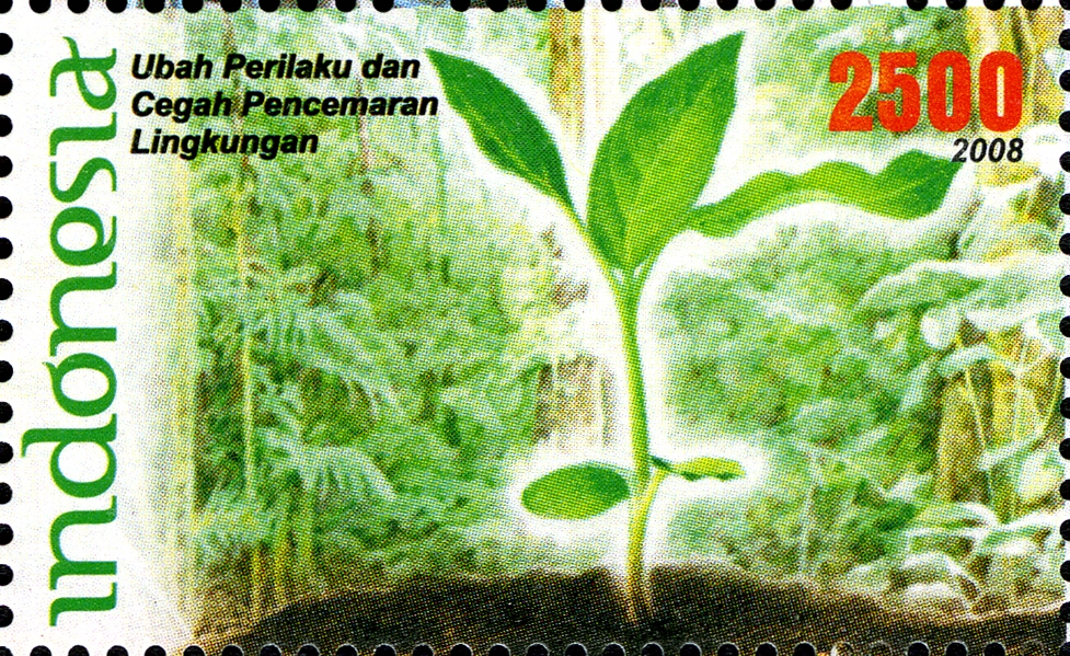 Stamps of Indonesia